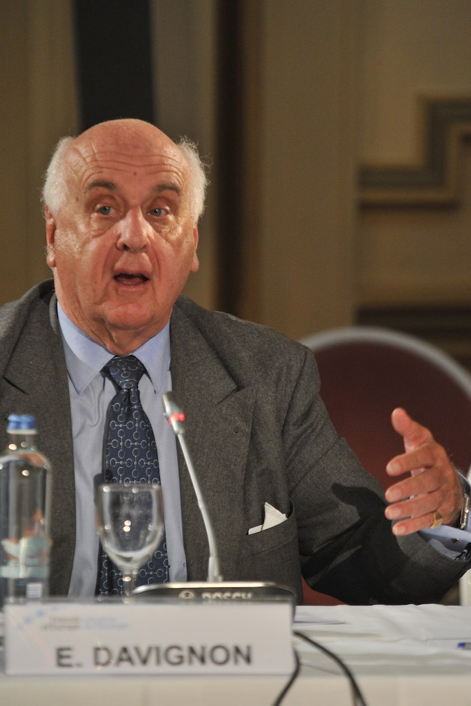 Viscount Etienne Davignon, President of Friends of Europe